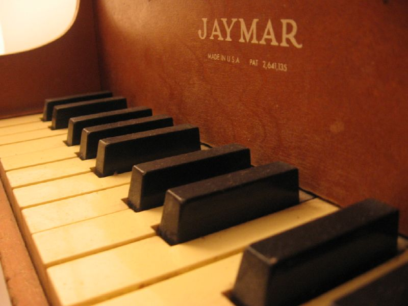 A toy piano's keyboard